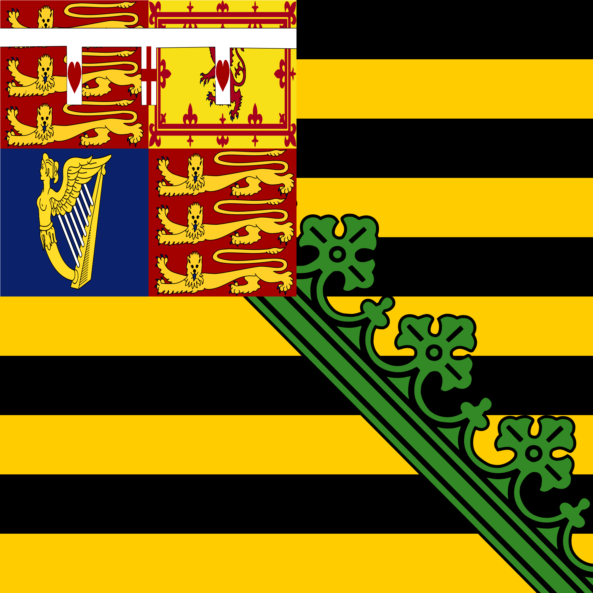 The standard of the Duke of Saxe-Coburg-Gotha. This image apparently intended to represent the arms of Alfred, Duke of Saxe-Coburg and Gotha, 2nd son of Queen Victoria, but actually showing the heraldic difference of Prince Leopold, Duke of Albany, her youngest son.